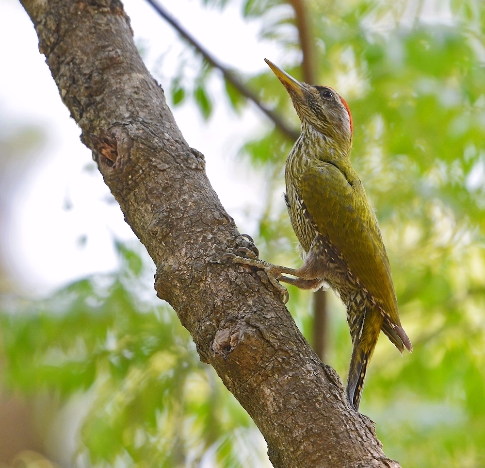 Picus xanthopygaeus or the Streak-throated Woodpecker, adult, male from Dhikala, Corbett National Park, Dehradun, India, May 2012. Equipment Nikon D600+Nikkor 500 mm f/4 + TC1.4 (700 mm effective focal length) 6, Exposure Compensation : +0.67